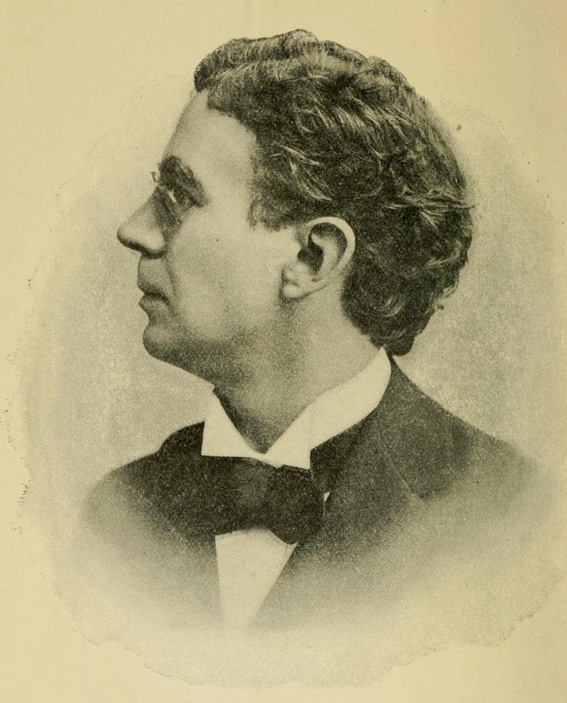 Foster MacGowan Voorhees, Governor of New Jersey